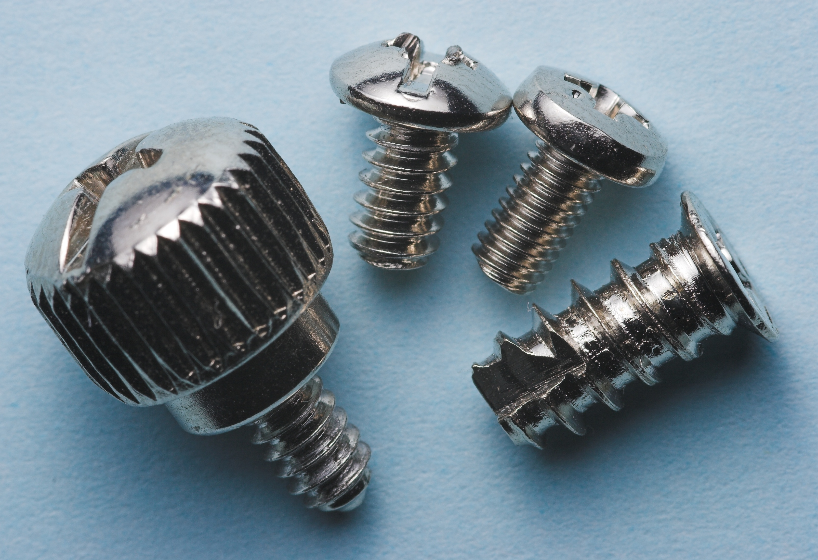 Different screws used in today's PCs. The right one is a self-cutting screw for fans.